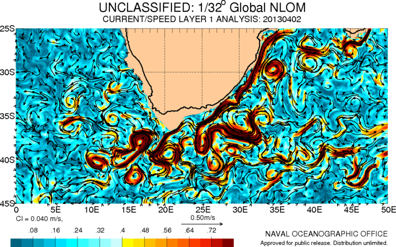 Snapshot of the Agulhas Current.